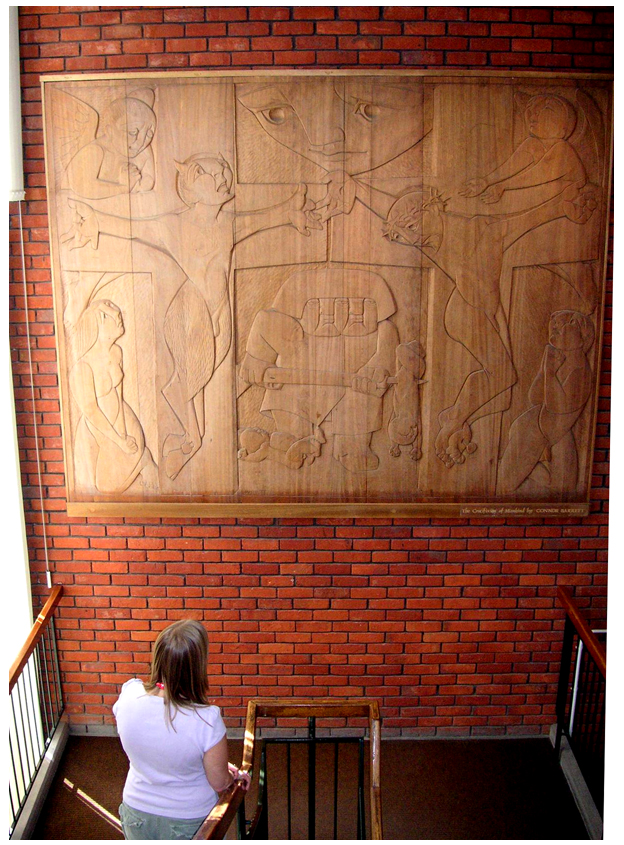 photo of Connor Barrett's mahogany wood carving, The Crucifixion of Mankind, located in the Colchester Public Library, England . The picture was taken by Sandie Keeble of the Colchester library staff for Carptrash 14:17, 2 September 2006 (UTC).